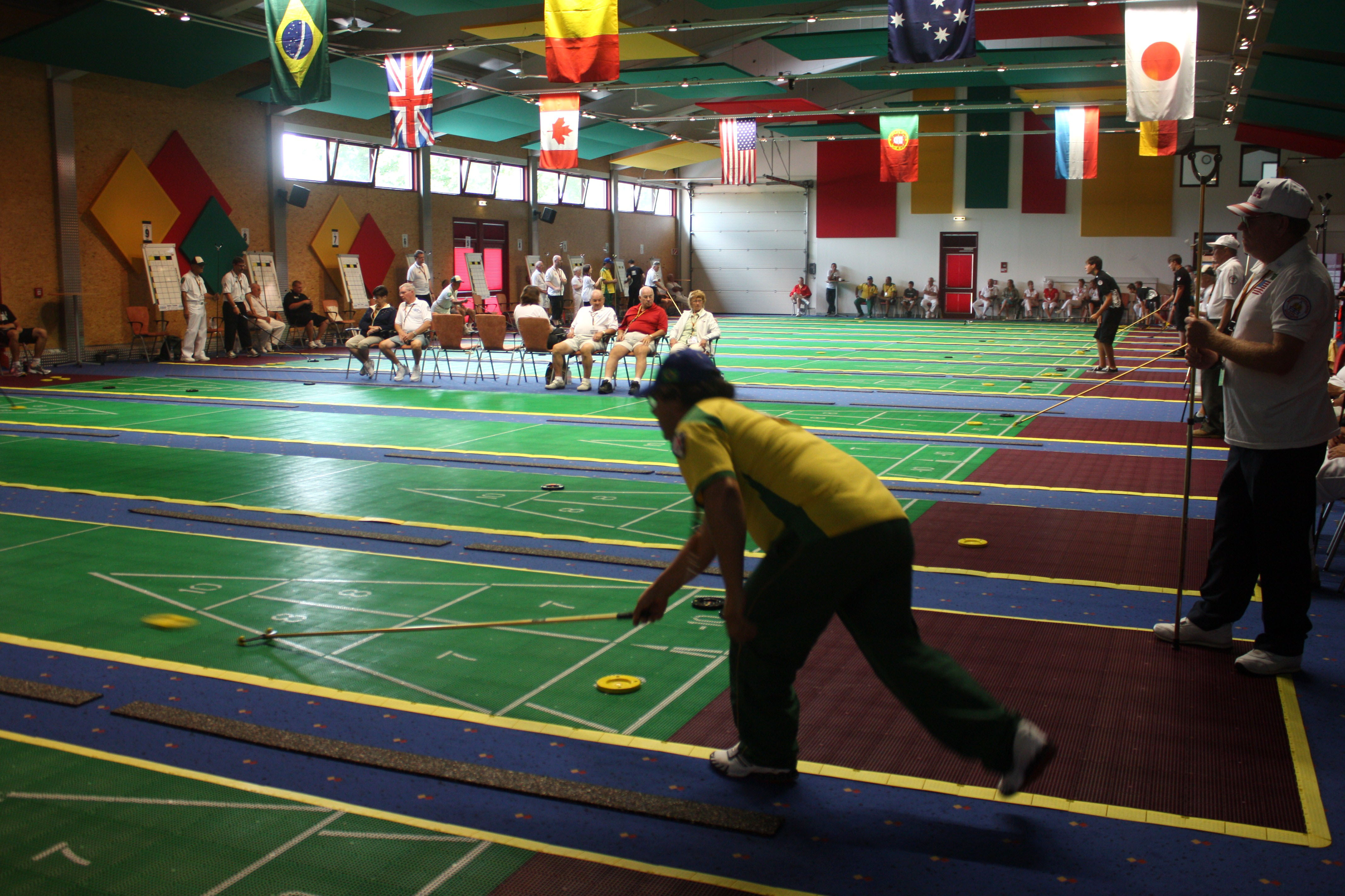 Pedro Caldas (BRA) playing in the 28th ISA Team World Championship. August 2, 2010 Hohenroda, Hessen, Germany Photographer: Fatima Alves